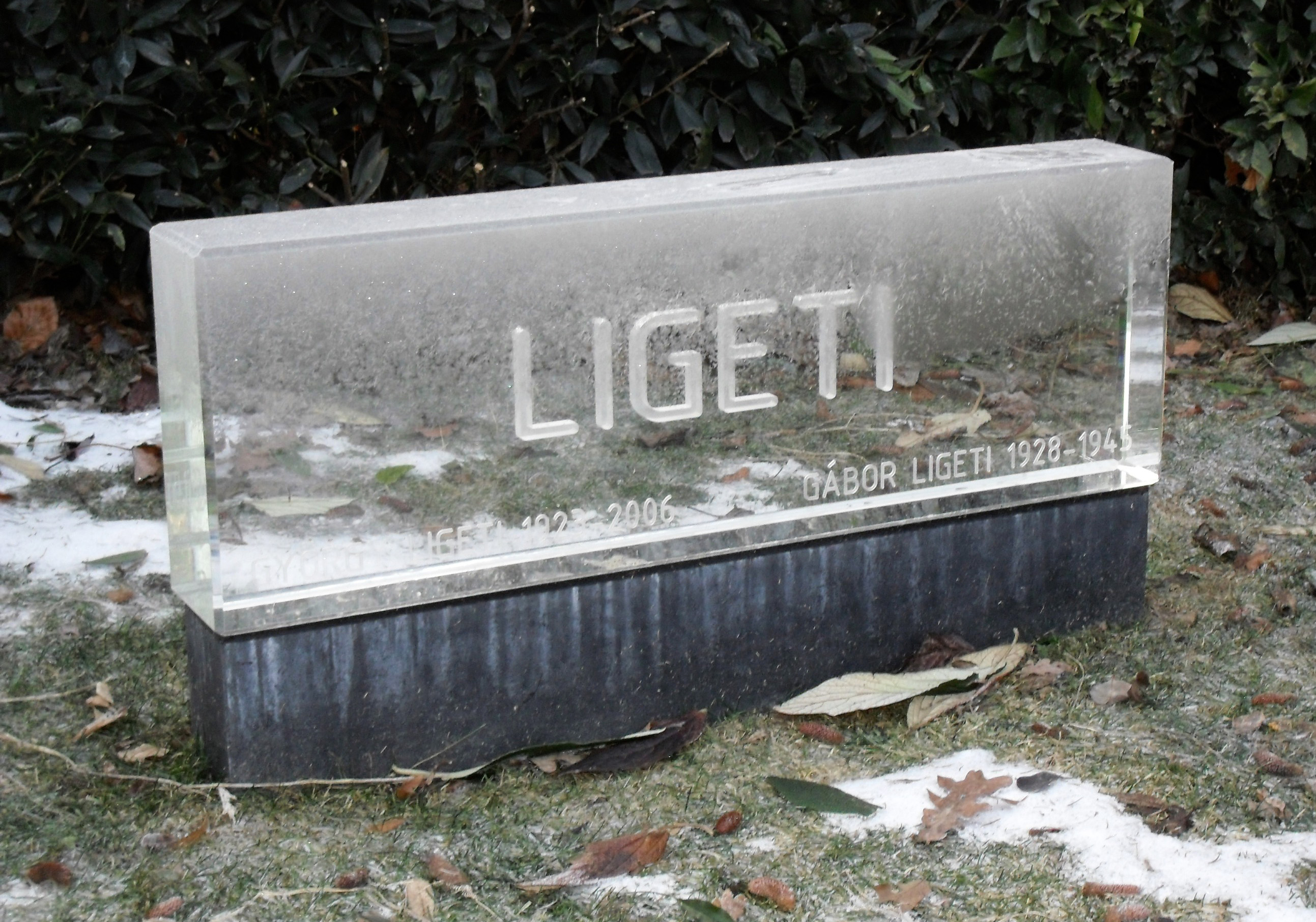 Ligeti's grave at Zentralfriedhof, Vienna